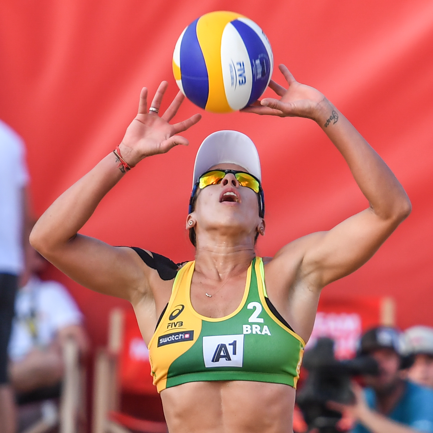 29/7/17, Vienna, Austria, sports, beach volleyball, FIVB Beach Volleyball World Championships.